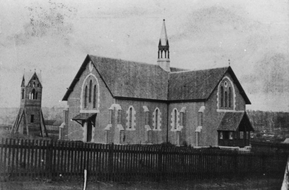 St. James Church of England, Toowoomba, 1869. St. James Church of England opened for services in December 1869. The architect was R. G. Suter and the builder was R. Godsall. The bell tower, which is still under construction in this image, was completed and the bell hung on 8 June 1870. The foundation stone was laid by Governor Blackall on 1 May 1869. (Description supplied with photograph).